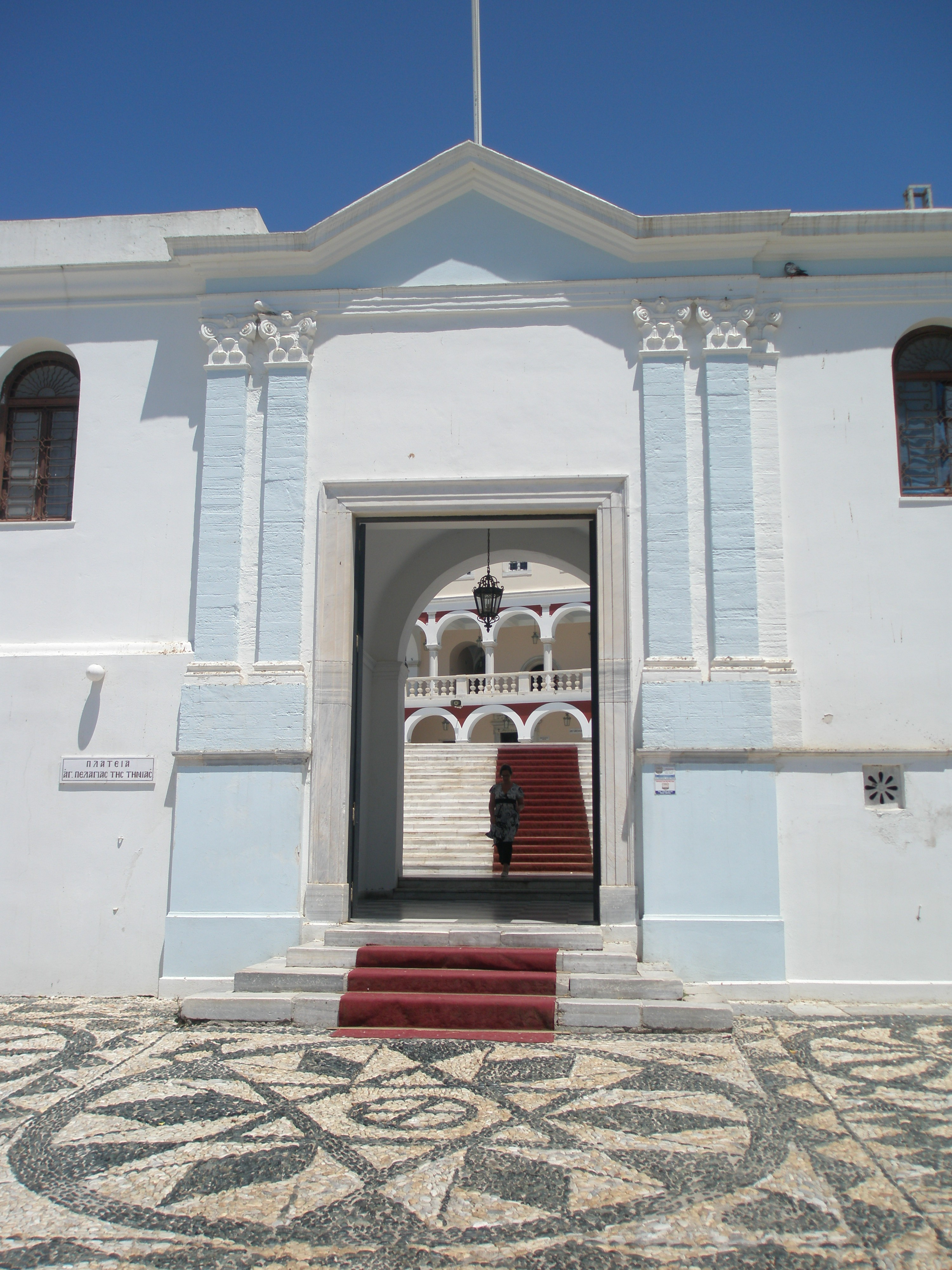 gate of Panagia Tinou church